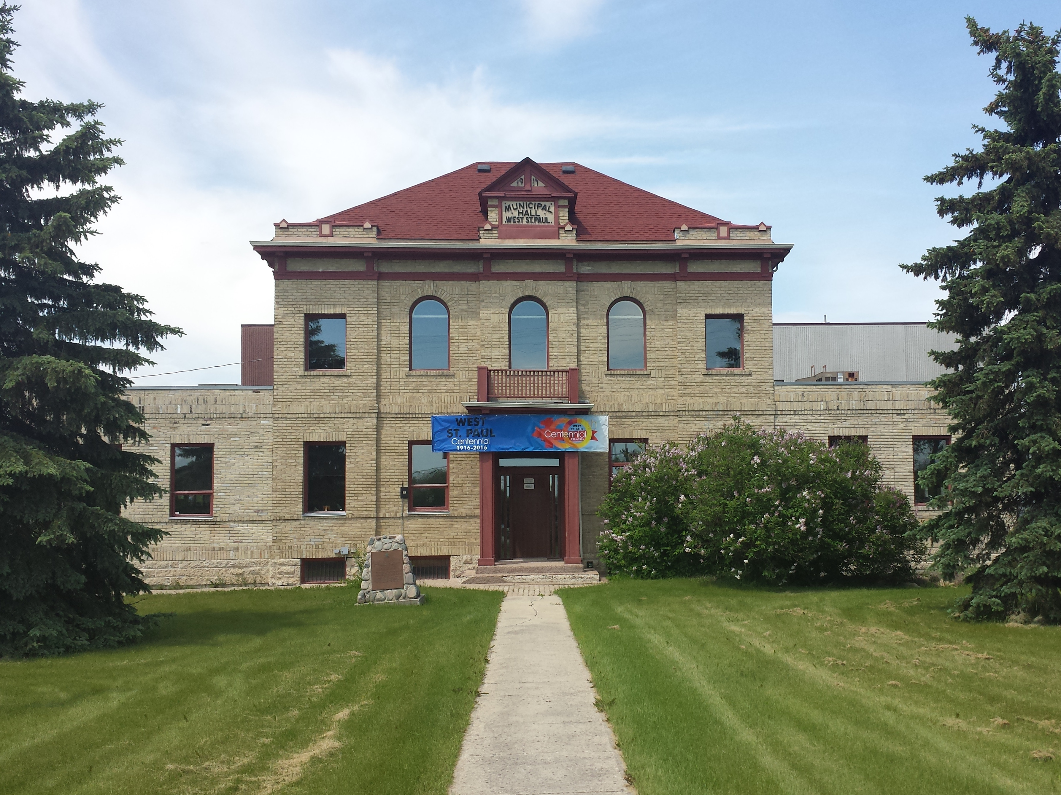 Front view of the West St. Paul Municipal Hall. Built in 1917, it is a Municipal Heritage Site.